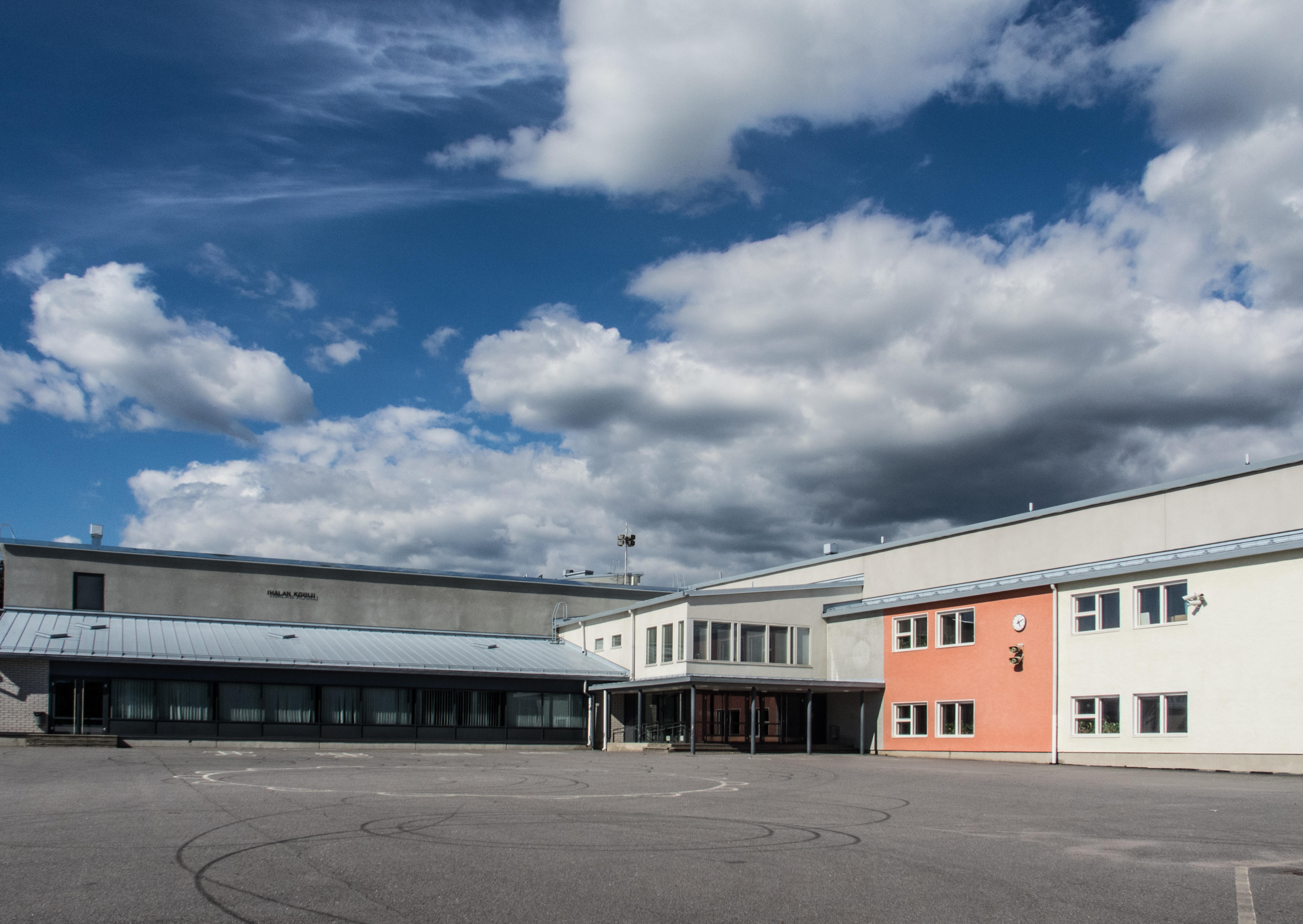 Ihalan koulu, school in the Ihala suburb, Raisio, Finland, June 2014.